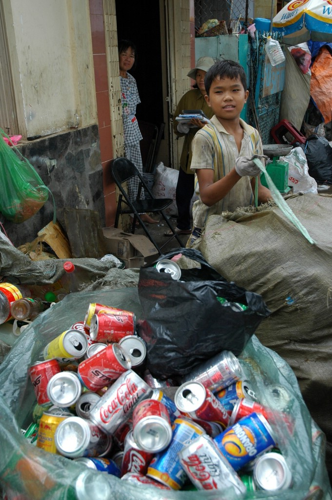 A smiling boy recycling garbage in Saigon.Happy Garbage Recycler